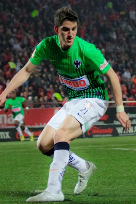 Monterrey player Hiram Mier